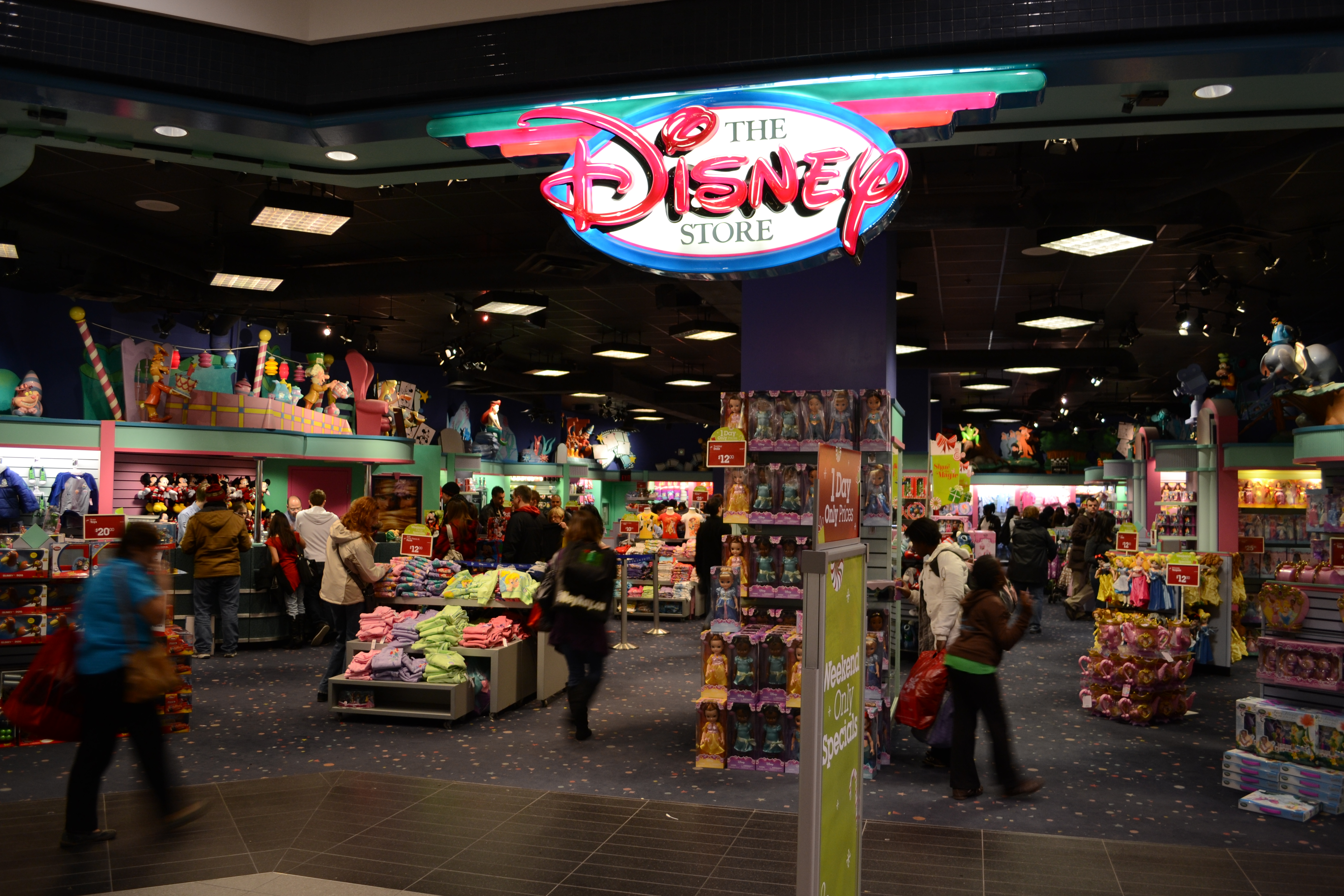 A first-generation Disney Store in Toronto's Eaton Centre.